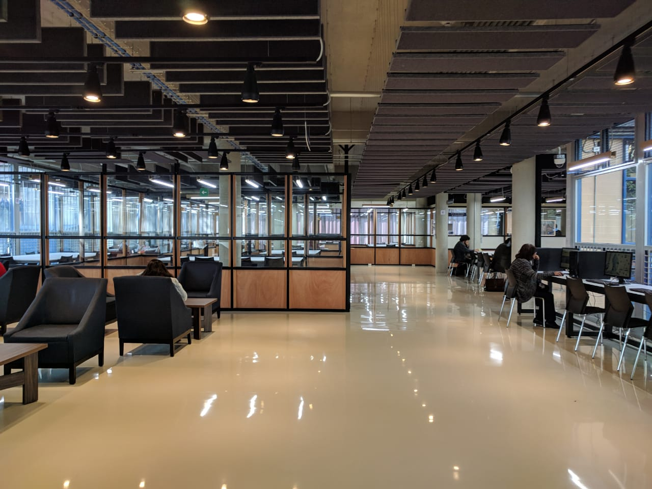 Second section of the Samuel Ramos library